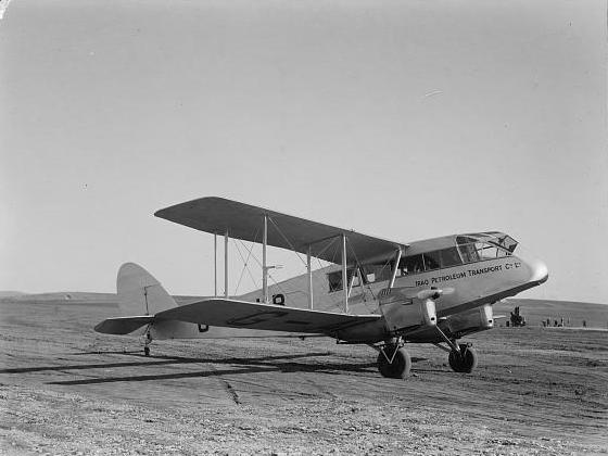 De Havilland Dragon of the Iraq Petroleum Transport Company on a landing ground in the 1930s